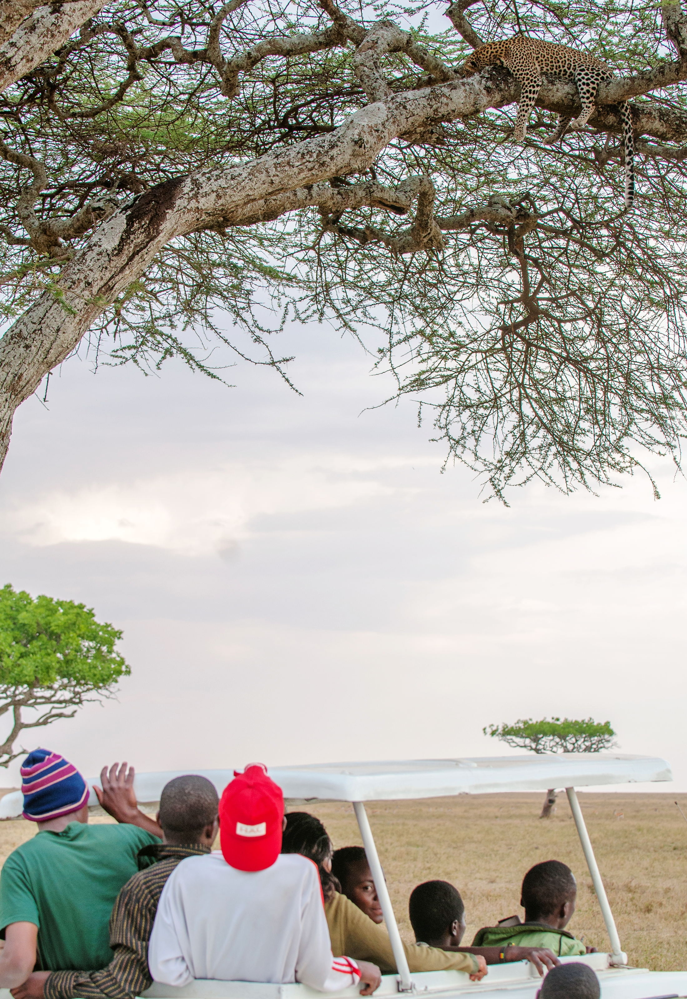 Tourists watching a leopard on a tree in the Serengeti National Park